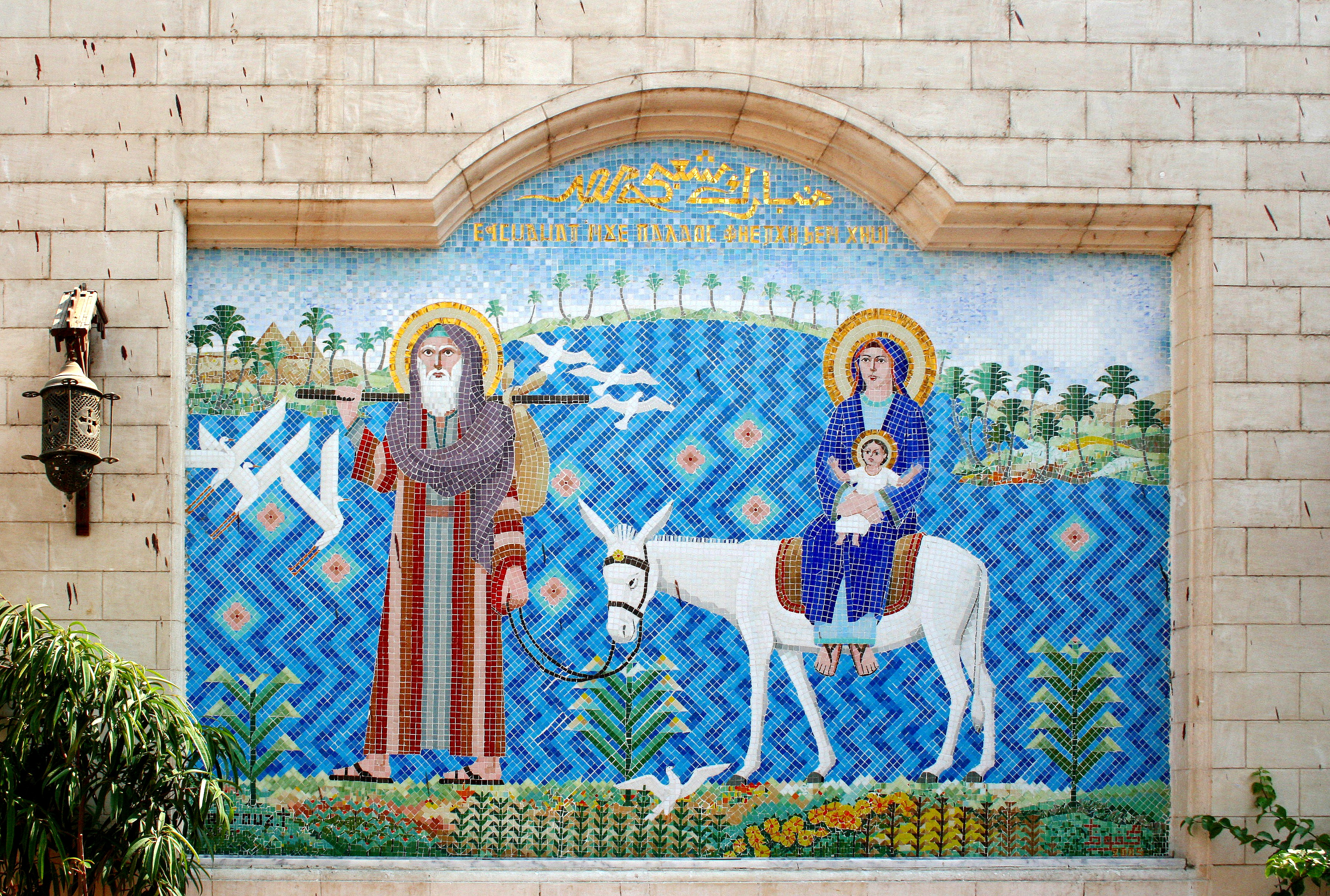 Hanging Church, Old Cairo, Egypt